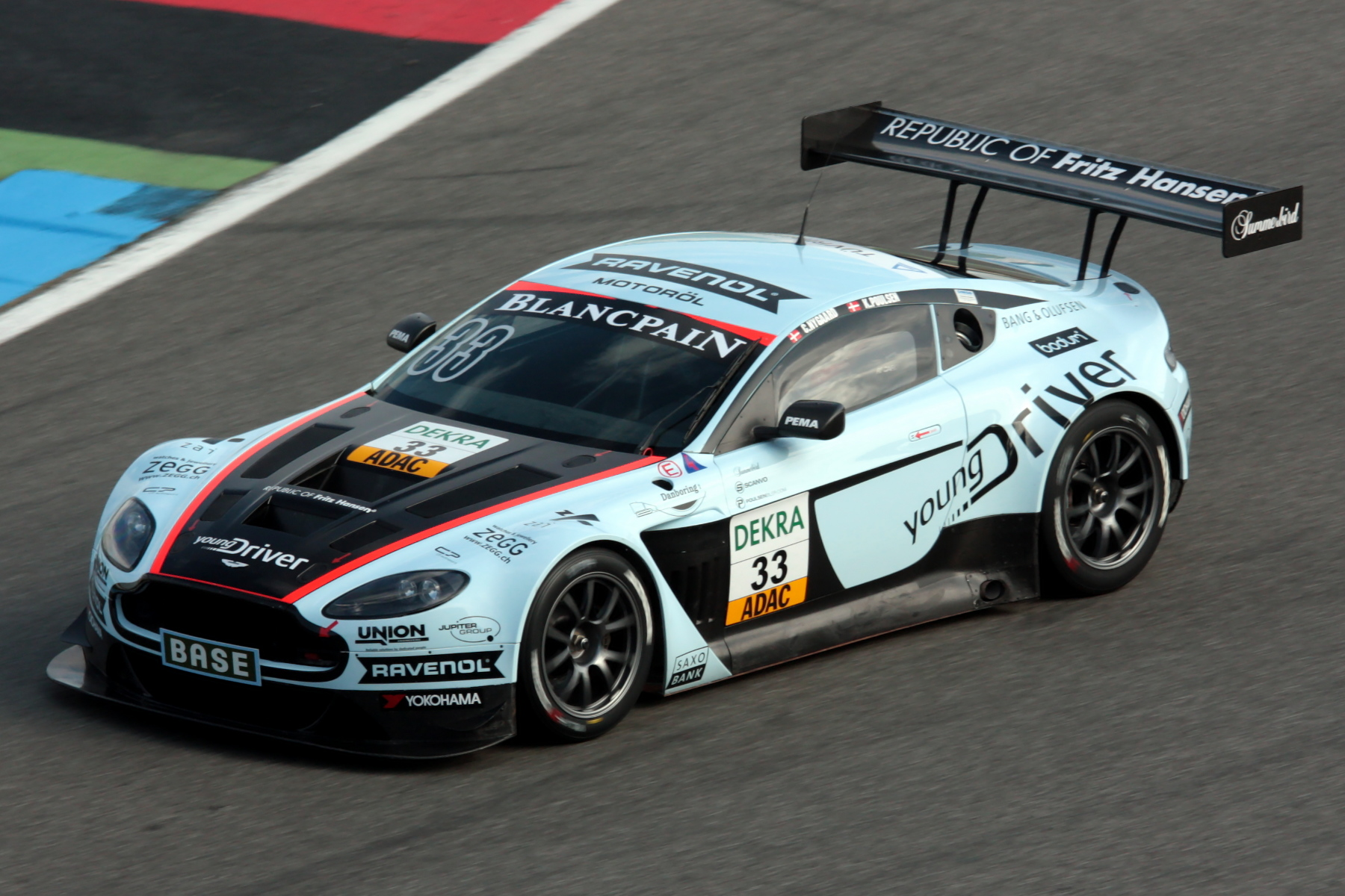 Aston Martin V12 Vantage GT33 in first ADAC GT Masters race of Hockenheimring 2012